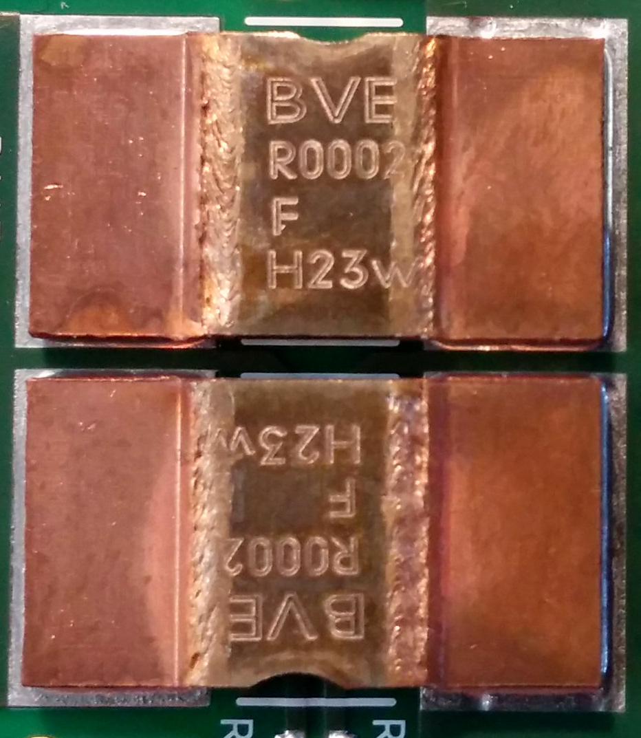 Two shunt SMD-resistors with each 200 µΩ for high current measurement. The small round notch in the middle of the resistors serves to match the correct resistance value.